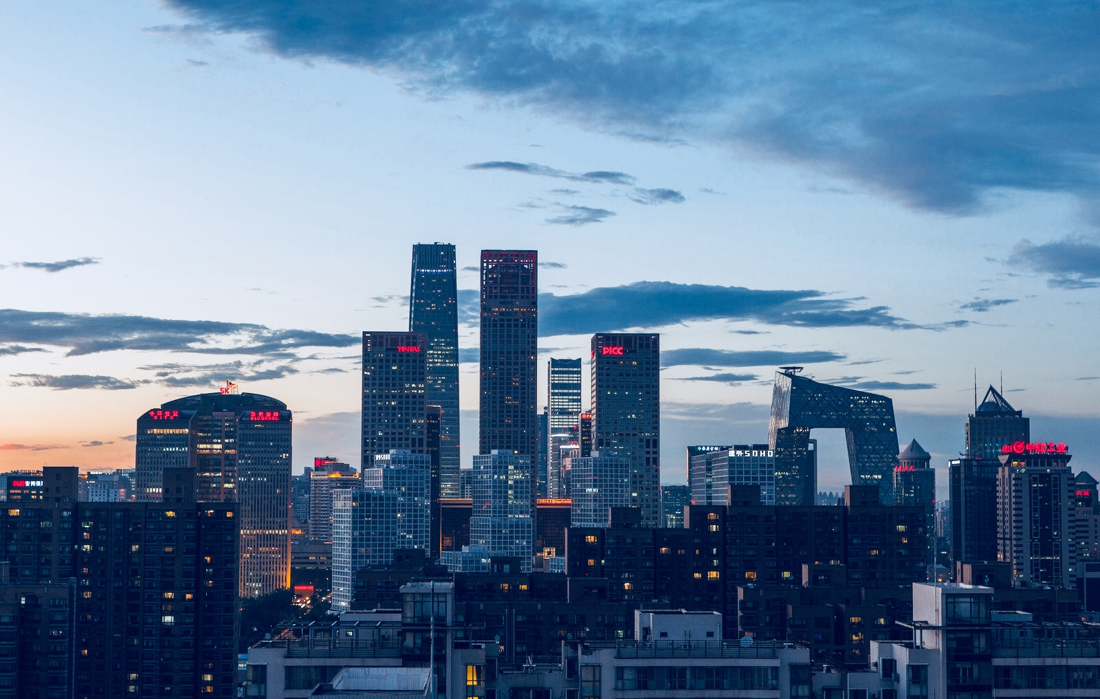 The skyline of Beijing CBD